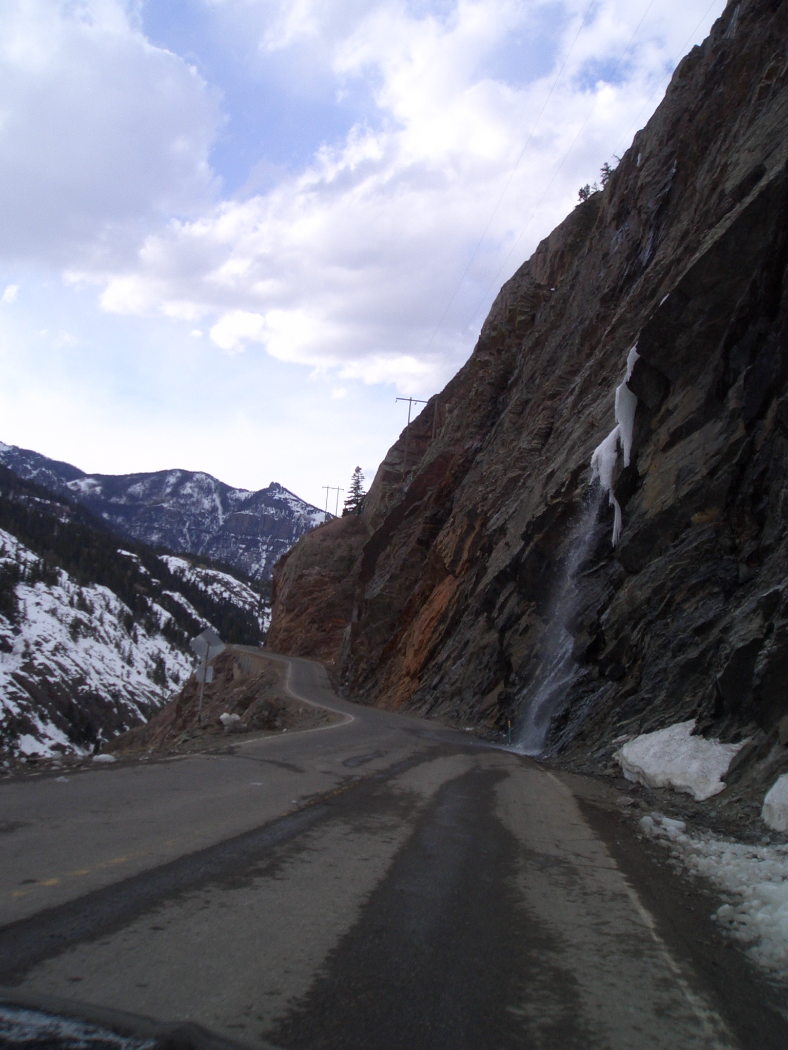 A narrow stretch of road along Red Mountain Pass.